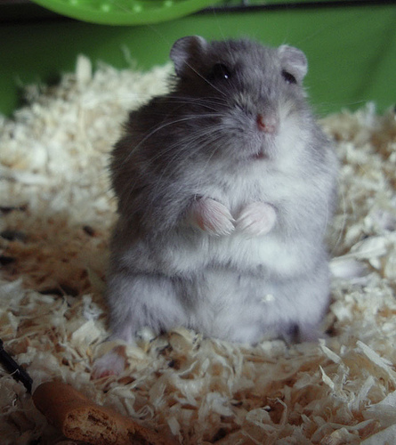 Hamster